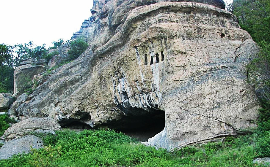 Nochevo sanctuary BG